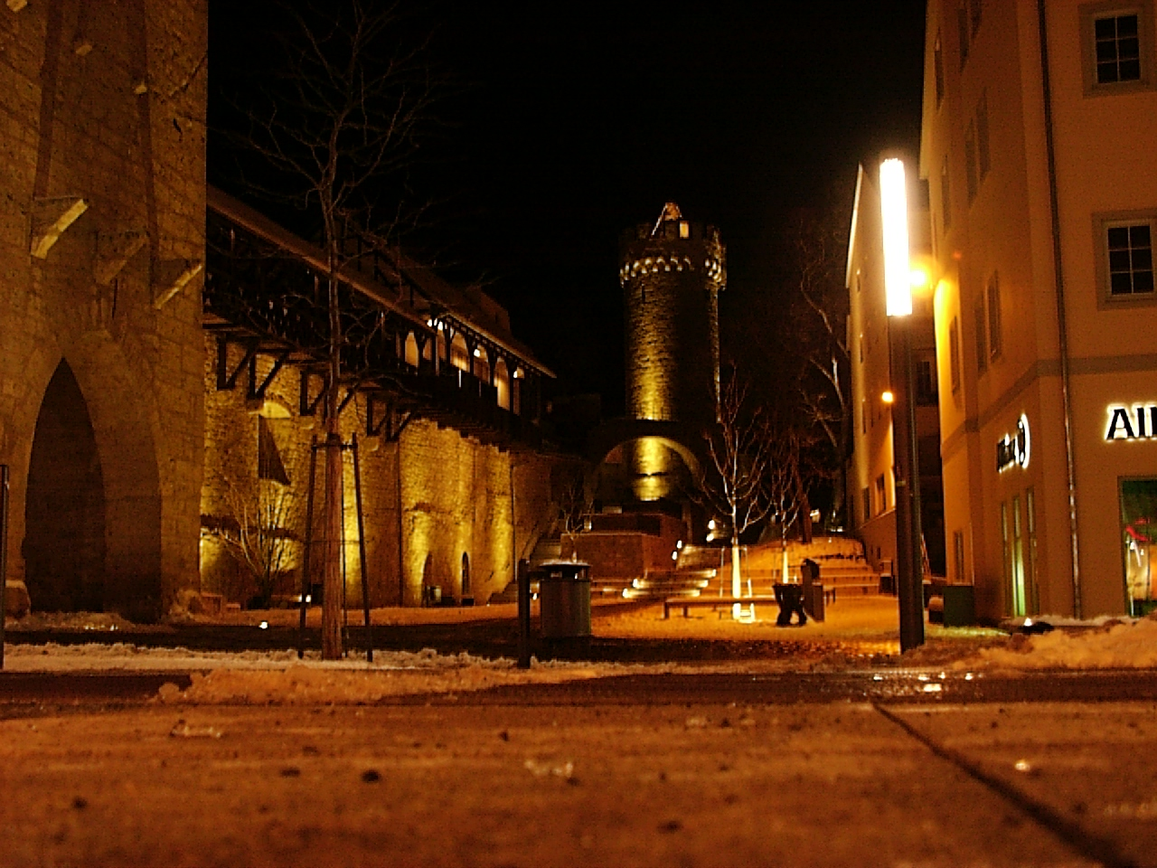 City wall between the towers Johannisturm and Pulverturm (powder tower) in Jena, Thuringia, Germany.